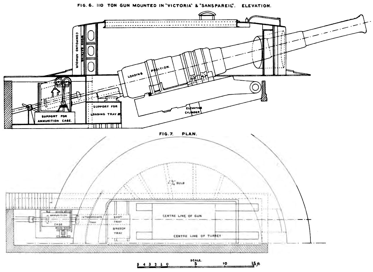 Diagrams showing BL 16.25 inch Mk I naval gun in loading position in turret mounting on British Victoria class battleship.